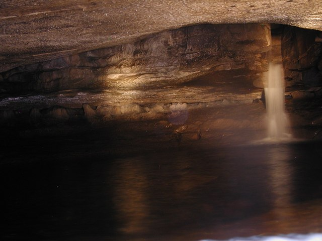 Inside Long Churn Cave Dr Banisters Hand basin a feature inside Long Churn